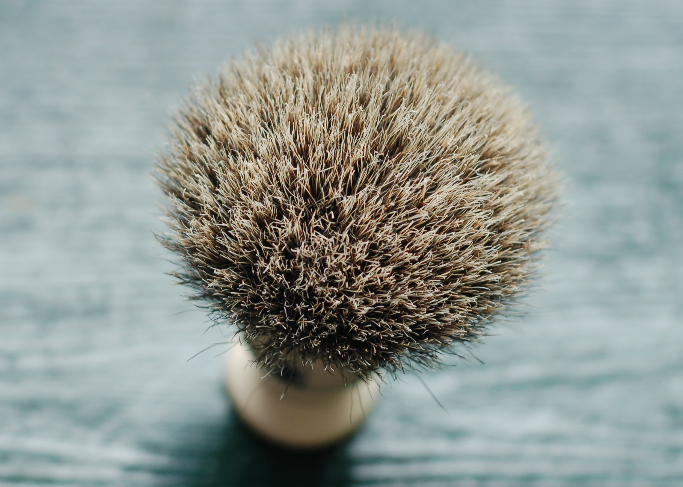 The hairy end of a Best Badger brush.